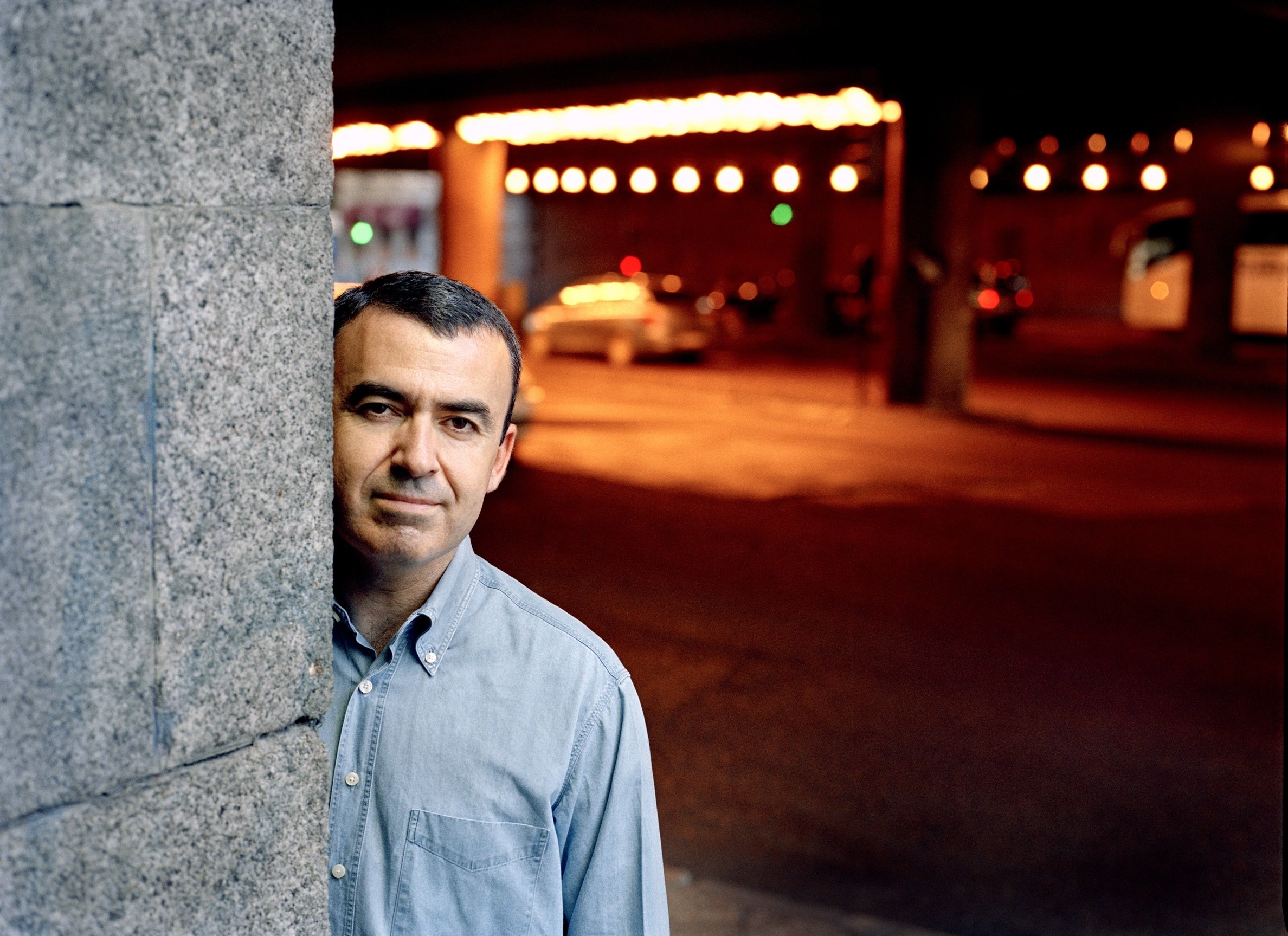 Lorenzo Silva in 2007